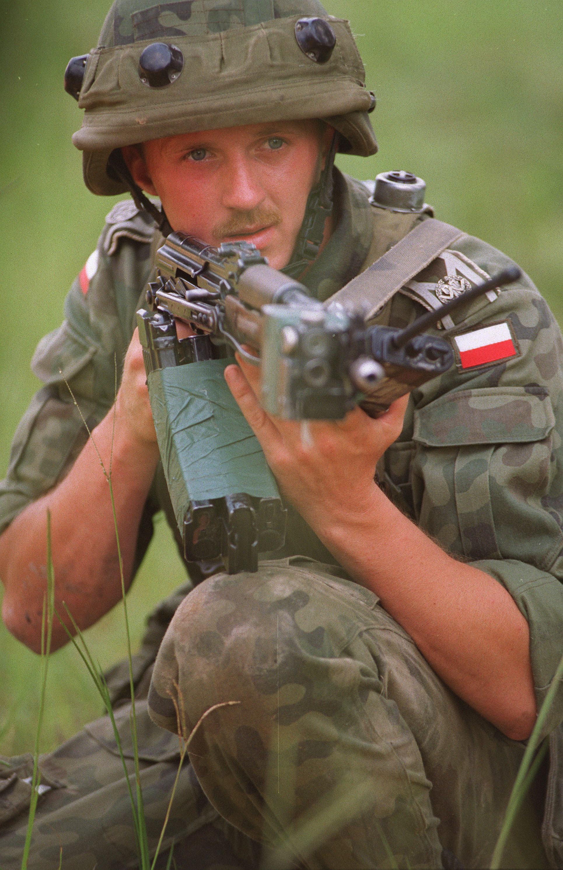 A Partnership For Peace soldier, armed with an AKMS assault rifle with the multiple integrated laser engagement system (MILES) attached, takes a knee after spotting the enemy on a patrol at the Joint Readiness Training Center.